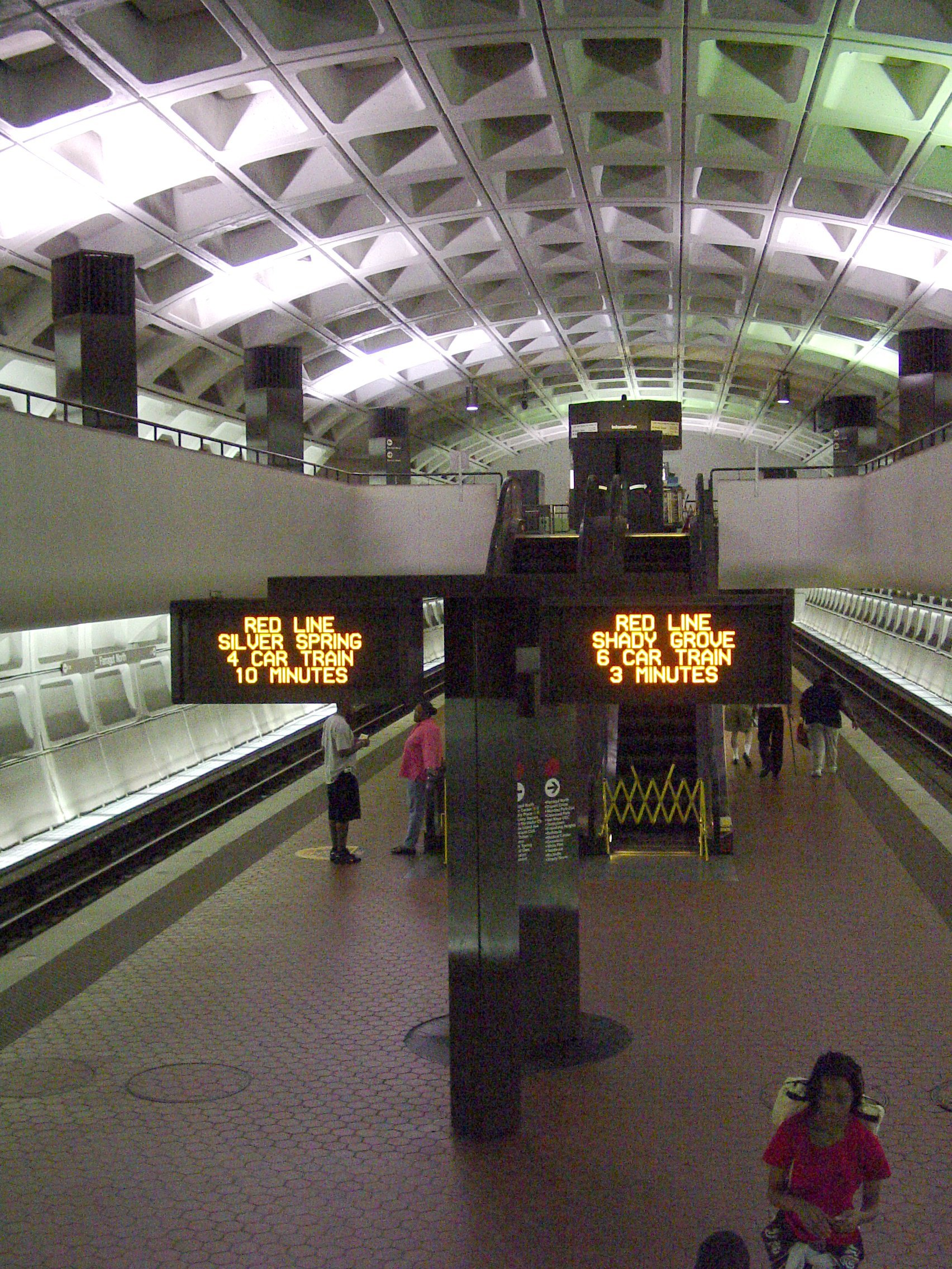 Washington Metro. Farragut North station.